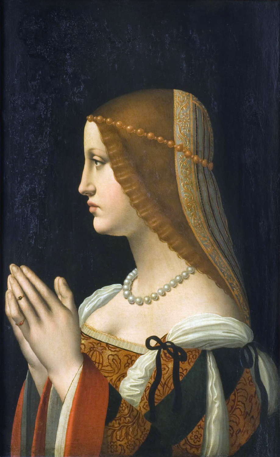 This panel was once part of a larger composition (a diptych or a triptych).